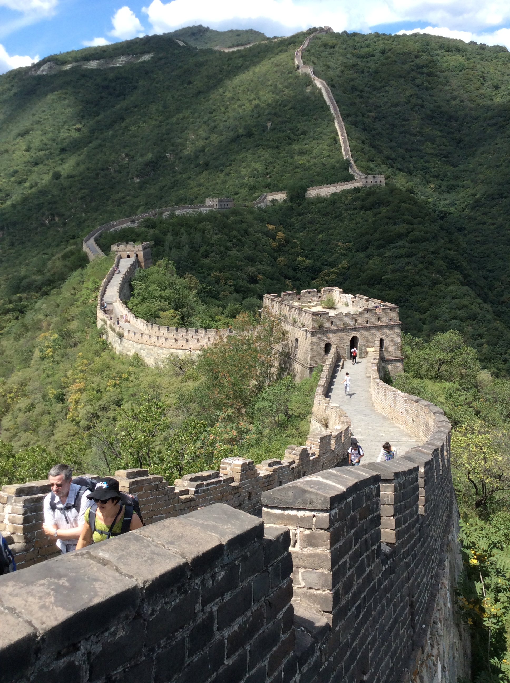 The Great Wall from one of the tower's.